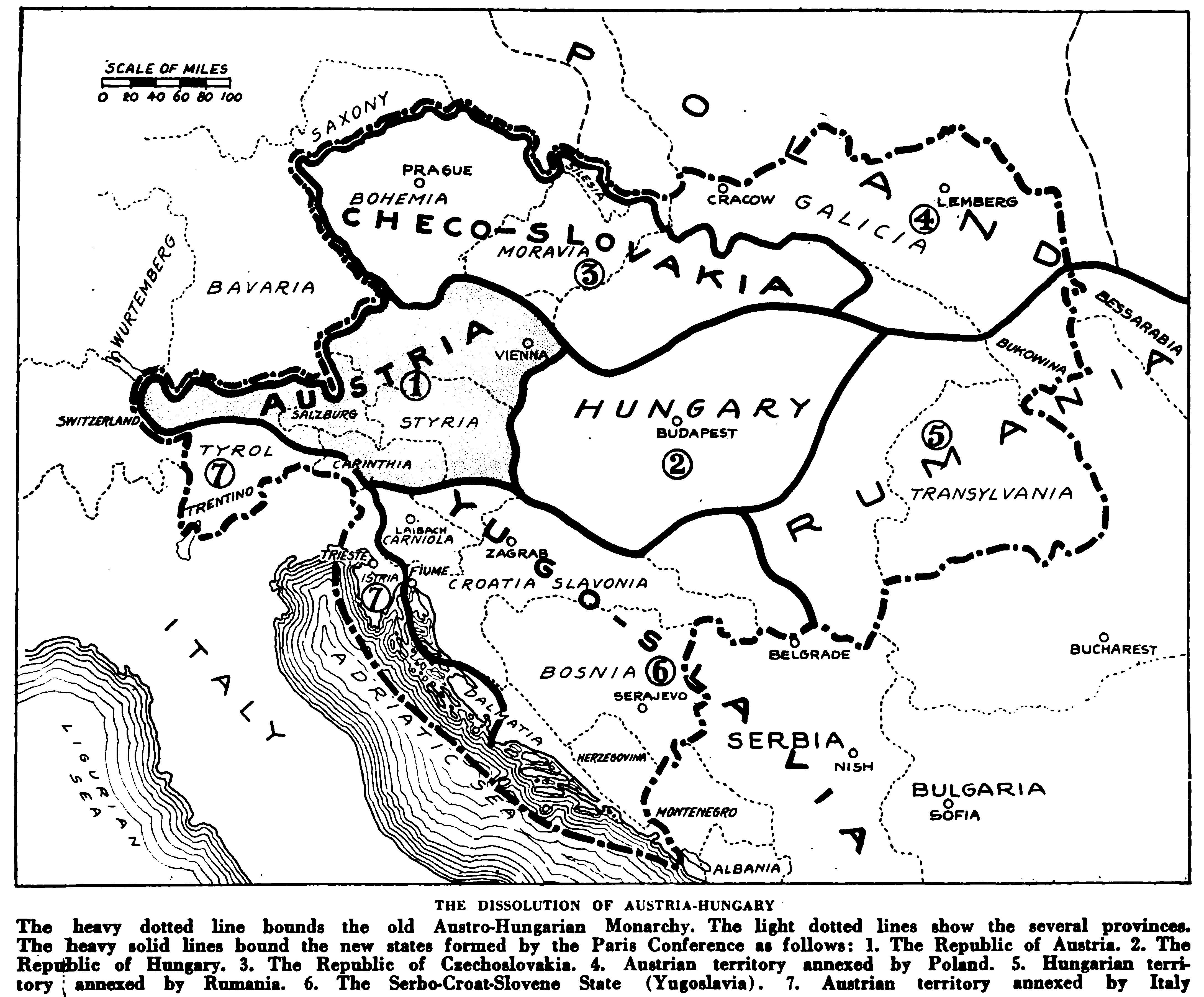 Drafted borders of Austria-Hungary in the Treaty of Trianon and Saint Germain.